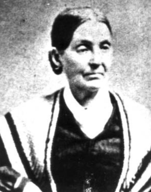 Photo of Emma Smith, (later re-married and named Emma Hale Smith Bidamon), wife married of Joseph Smith, Jr. latter in life. An early leader of the Latter Day Saint movement, during Joseph Smith's lifetime and afterward as a member of the Reorganized Church of Jesus Christ of Latter Day Saints (RLDS, now the Community of Christ).